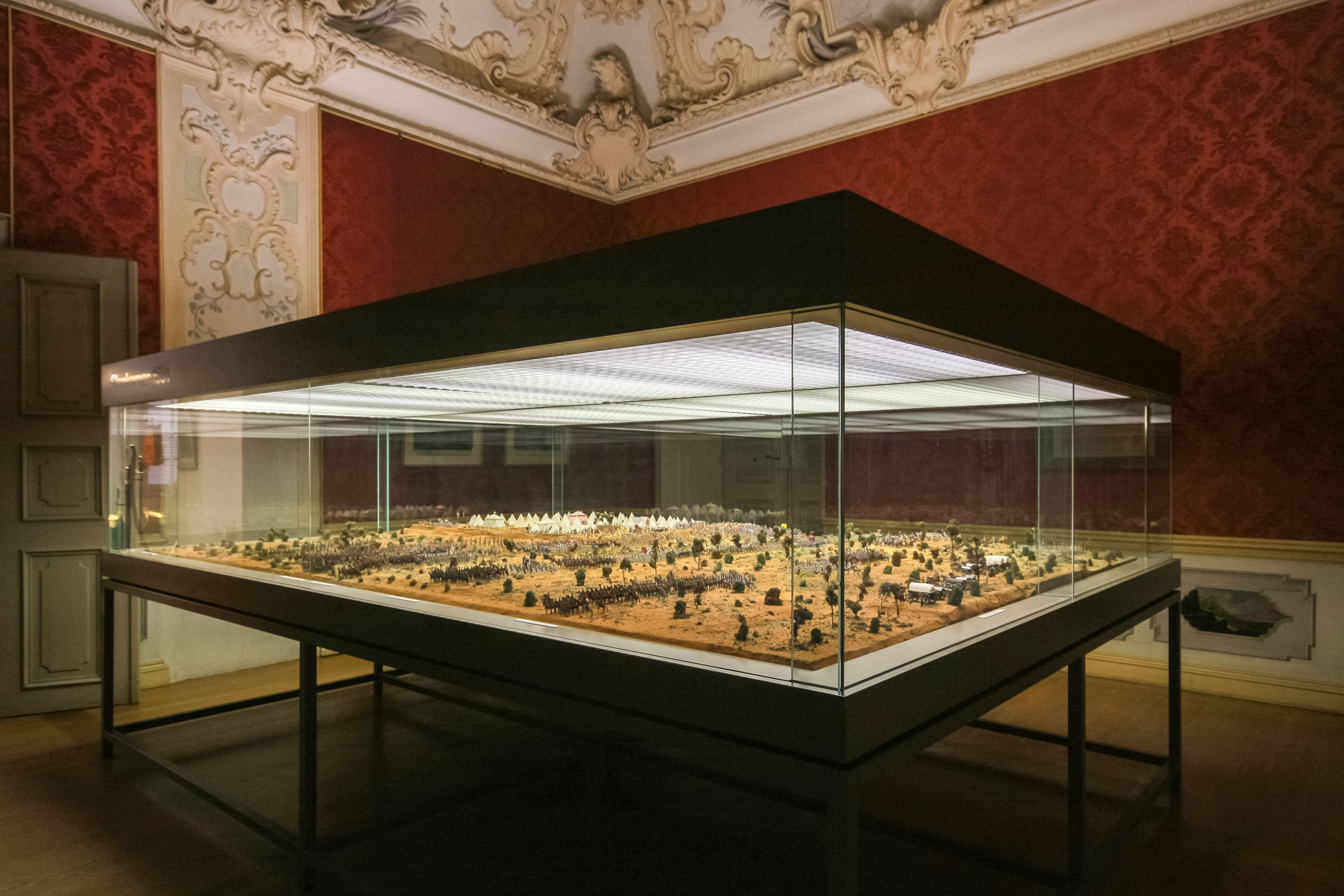 Diorama of the Battle of Slankamen at the Wehrgeschichtliches Museum Rastatt.